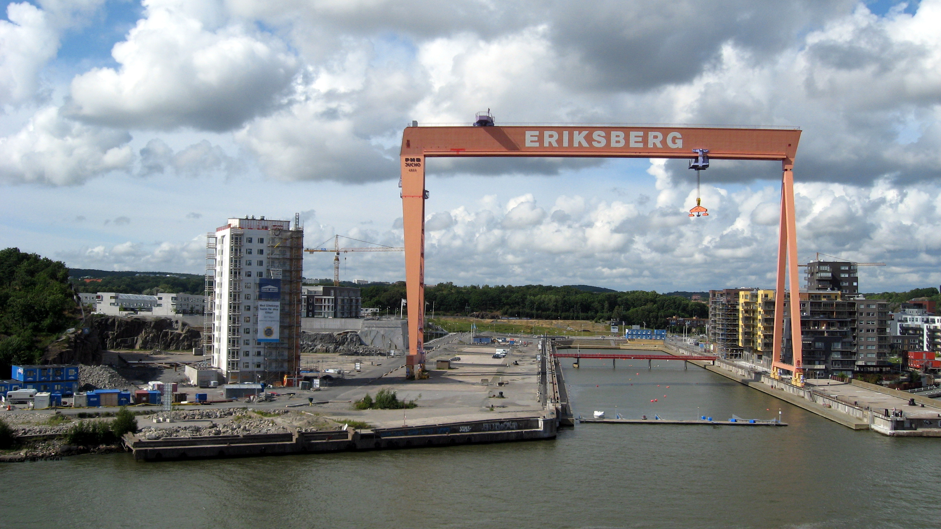 A portal crane, Gothenburg, Sweden